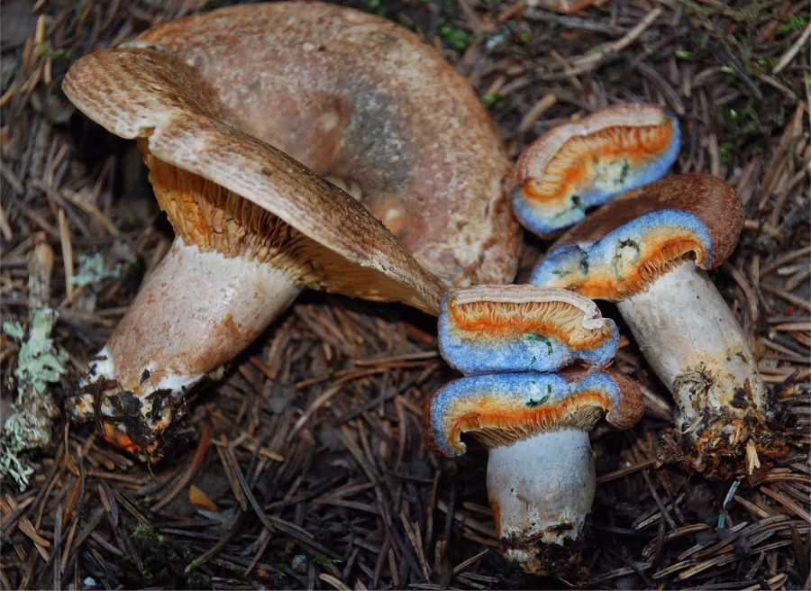 Fruit bodies of the milk mushroom Lactarius fennoscandicus Verbeken & Vesterh. Specimens photographed in Dalarna, Sweden.